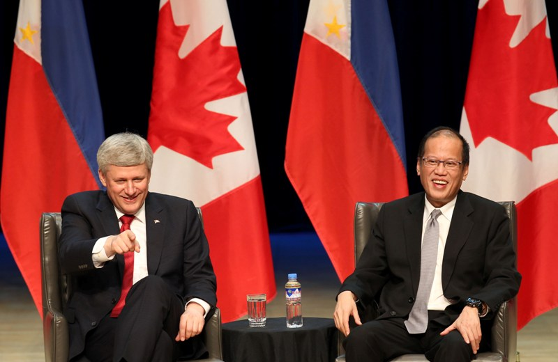 Philippine President Benigno Aquino III and Canadian Prime Minister Stephen Harper attend a reception with the Filipino community in Toronto on 8 May 2015.